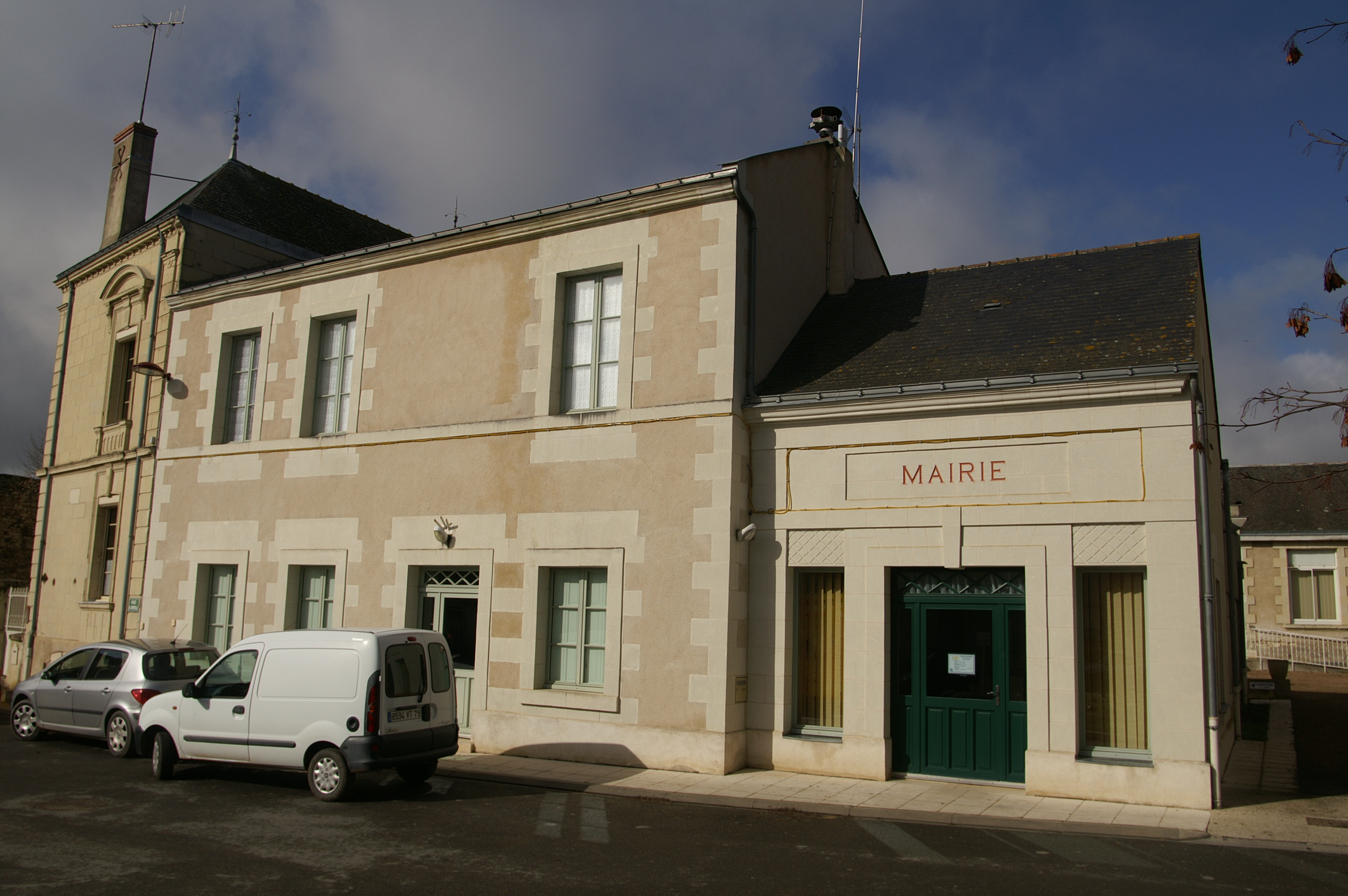 Town hall of Saint-Martin-de-Sanzay.